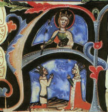 Louis I of Hungary